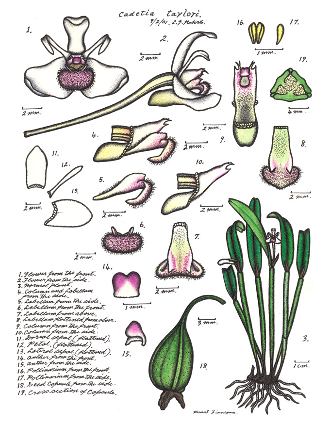 Cadetia taylorii. From a scan of the original work by Lewis Roberts